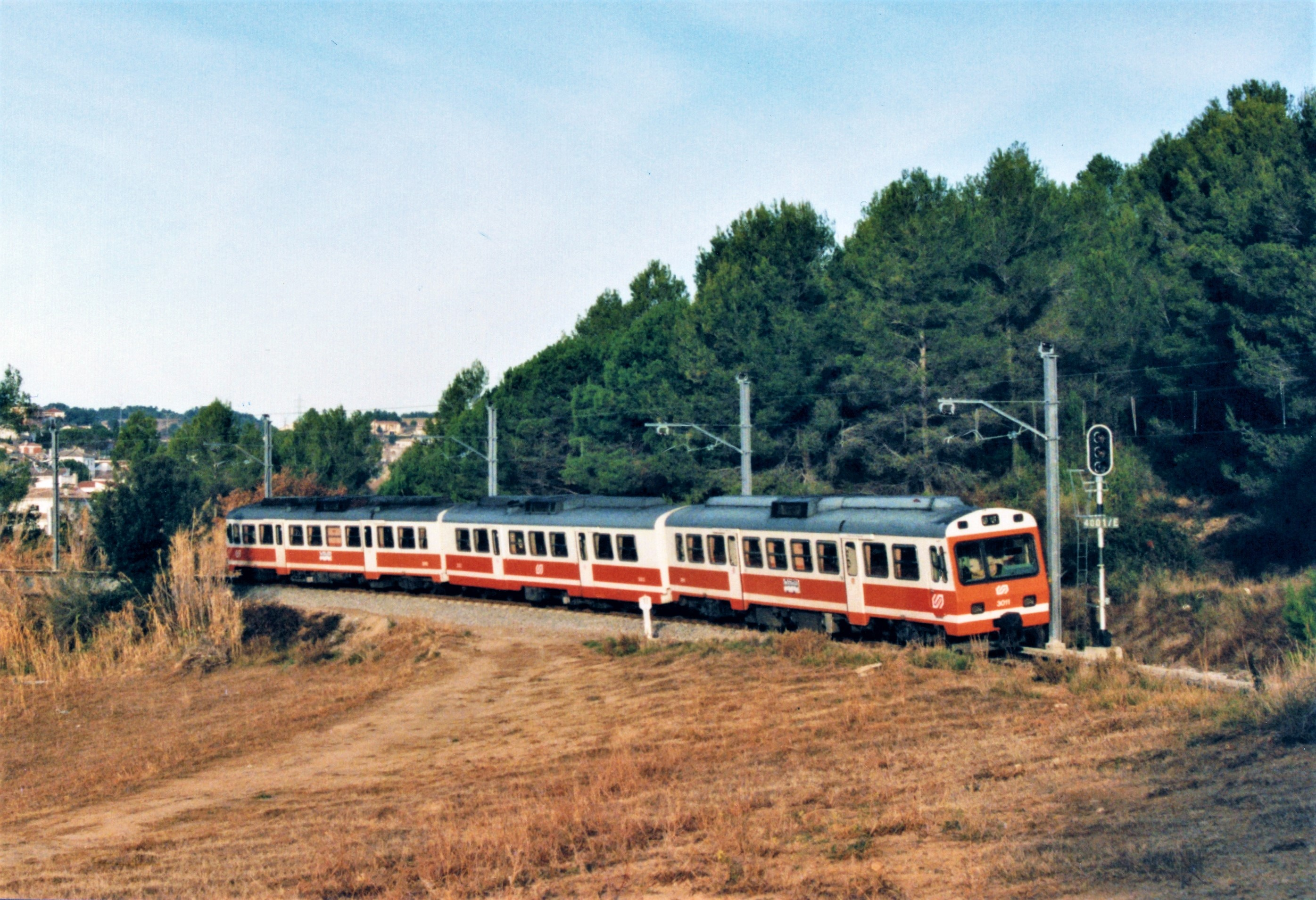 The DMU of FGC formed by cars 3010-3003-3011, arriving at Sant Esteve Sesrovires station, working the T307 shuttle train from Martorell Enllaç to Igualada.